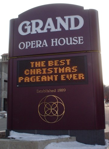 The sign in front of the Grand Opera House, Dubuque, Iowa. I took this photo in February of 2006. Jesster79 03:34, 27 February 2006 (UTC)